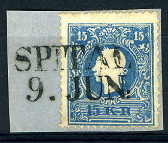 Linear cancellation SPITAL (Carinthia) on Austrian stamp 1859 issue